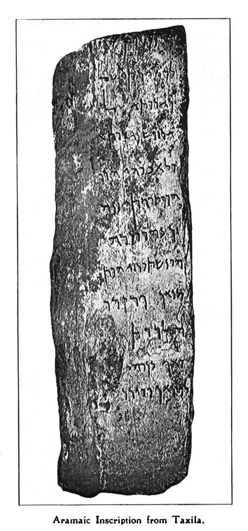 Aramaic inscription from Taxila JRAS